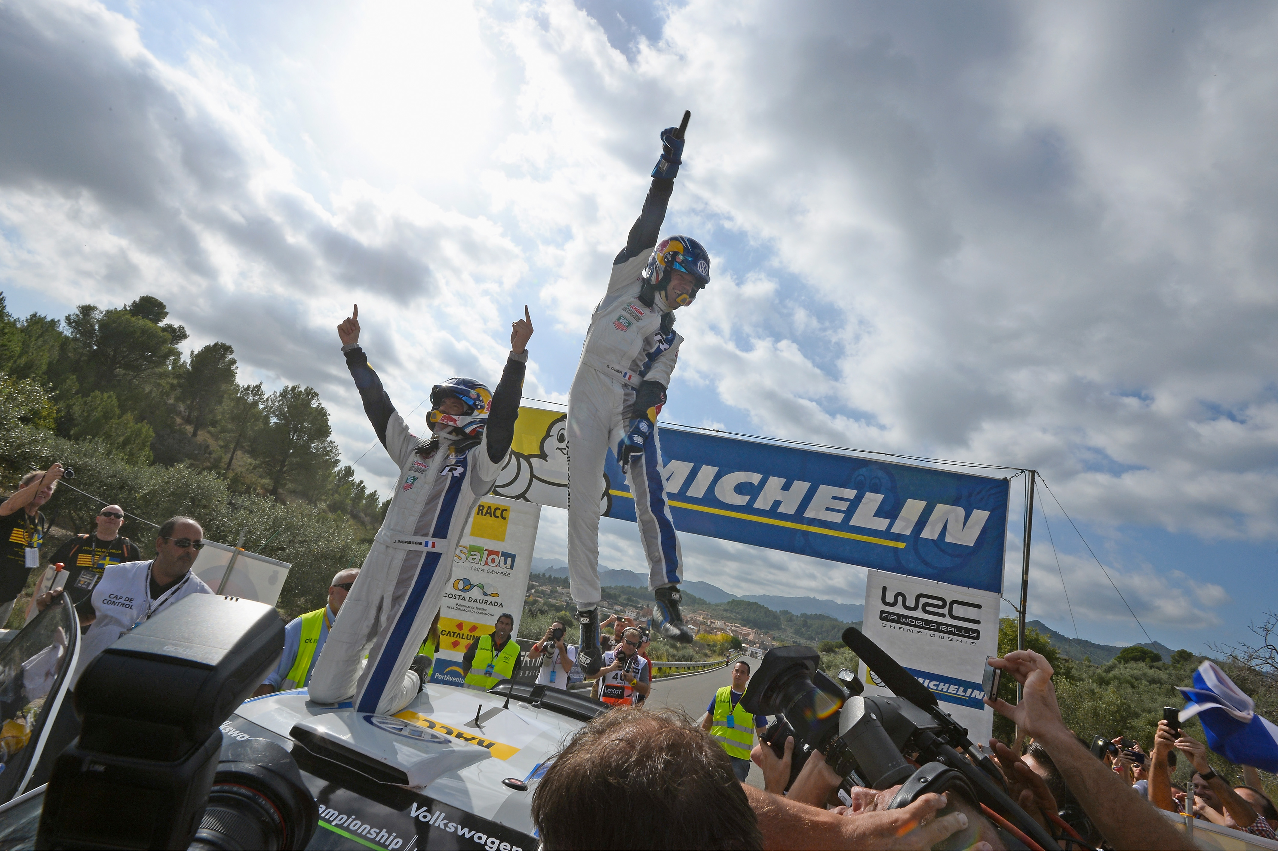 Sébastien Ogier (right) and co-driver Julien Ingrassia wins the 2014 Rally Catalunya and clinches the 2014 World Rally Drivers' Championship.